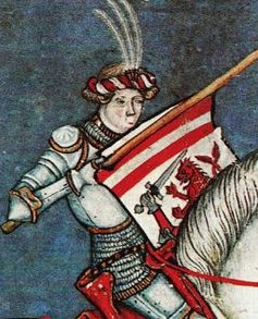 Image from Hrvoje's Missal